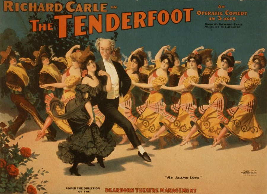 Richard Carle in The Tenderfoot, Broadway, 1904 - poster (original image cropped : see source)